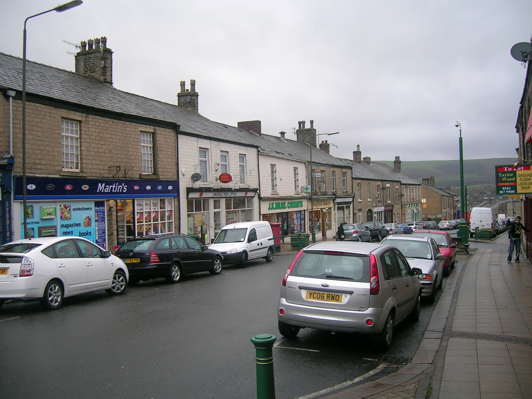 Hadfield is a civil parish in Derbyshire, bordering Tameside in Greater Manchester